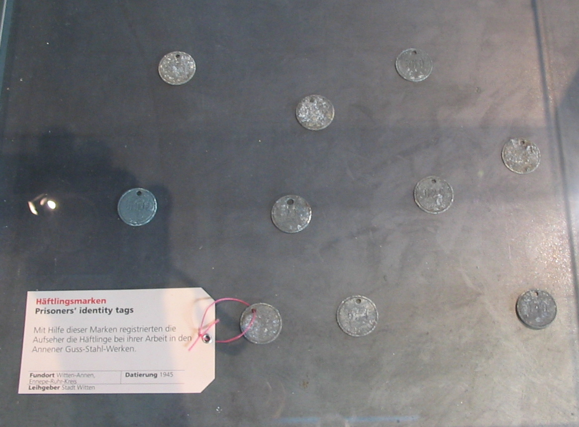 prisoners’ identity tags of Außenlager Annener Gußstahlwerk des KZ Buchenwald (Subcamp Annen Steelworks of concentration camp Buchenwald) at Westfälisches Museum für Archäologie